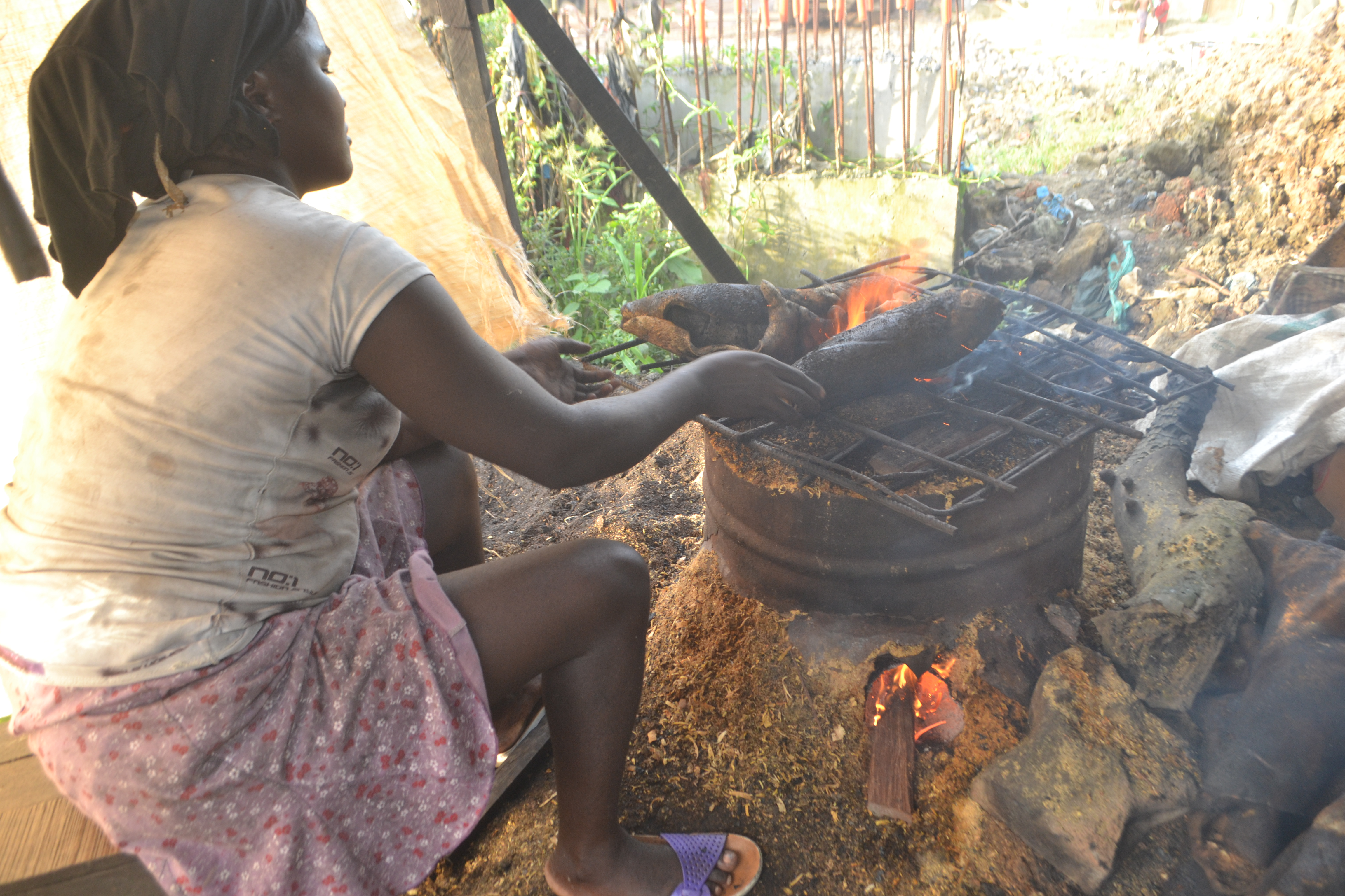 Young women burning Cow skin. to remove hair